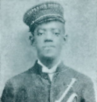 Bunk Johnson, 1910. Cropped from Image:SuperiorOch1910.jpg